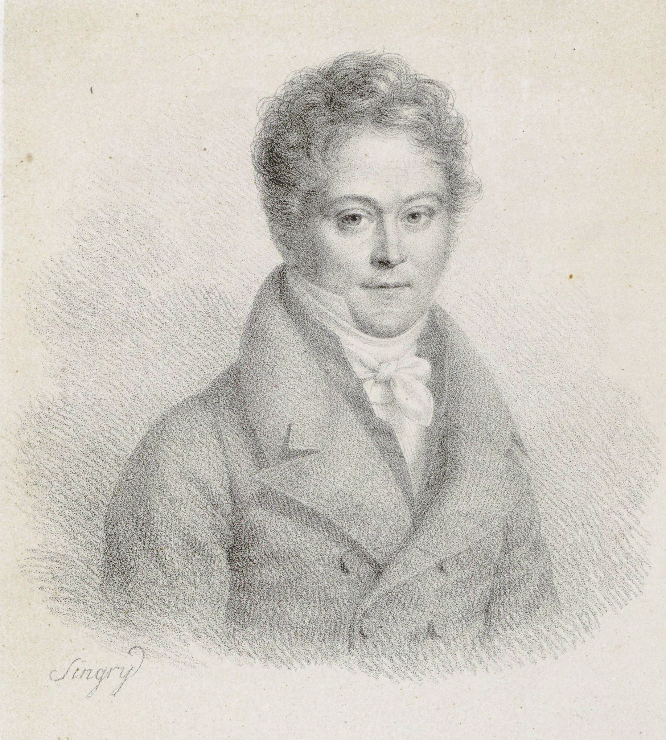 Depicted person: Pierre Baillot